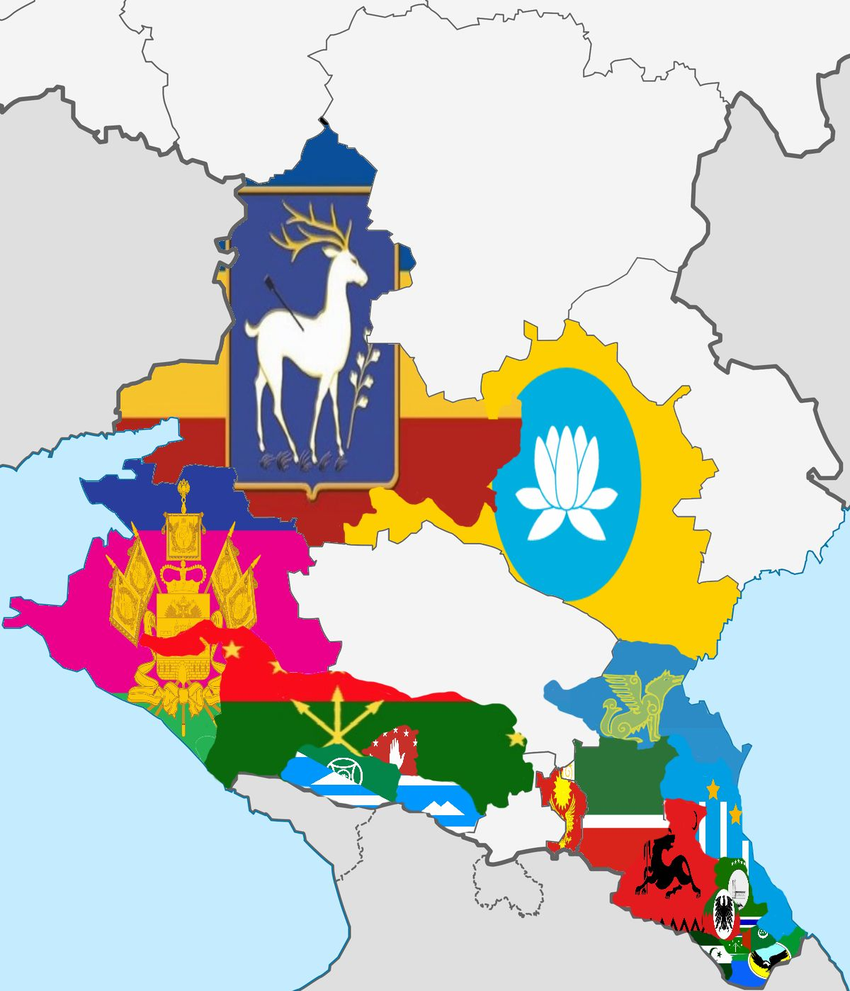 ethnic nationalism and arise sovereignty movement in Caucasus